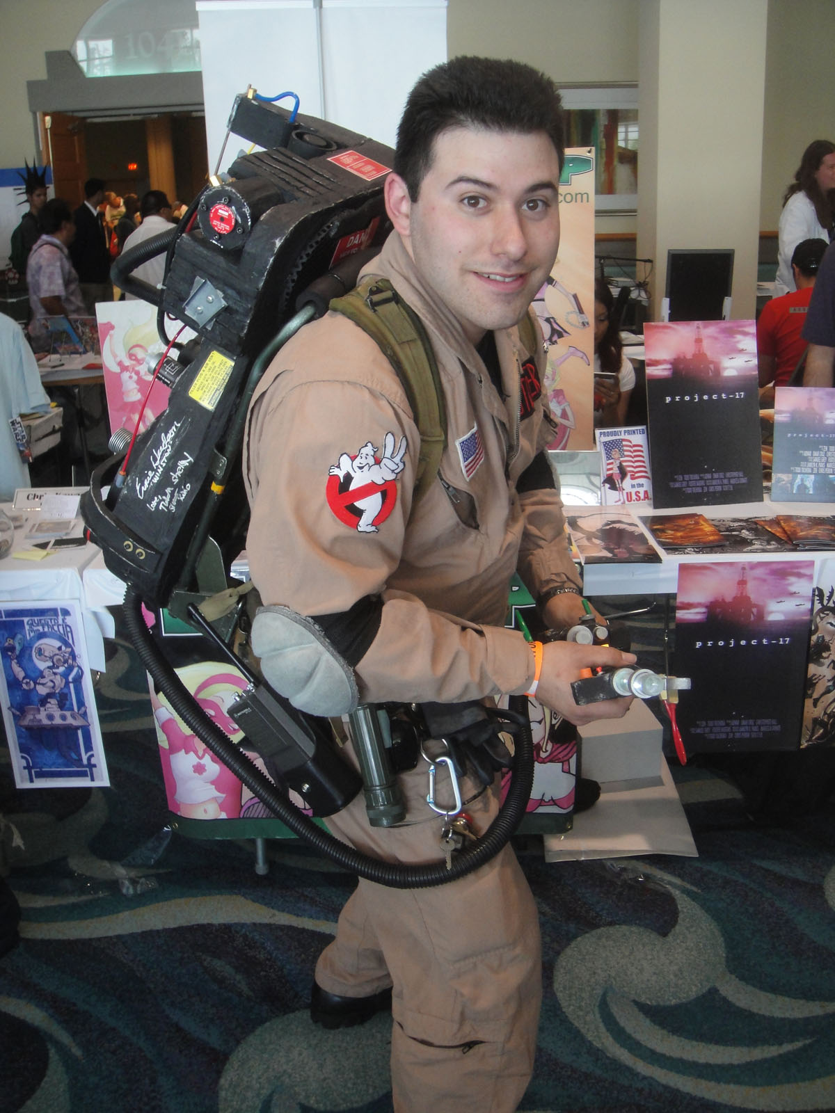 Long Beach Comic Expo 2012 - Ghostbuster